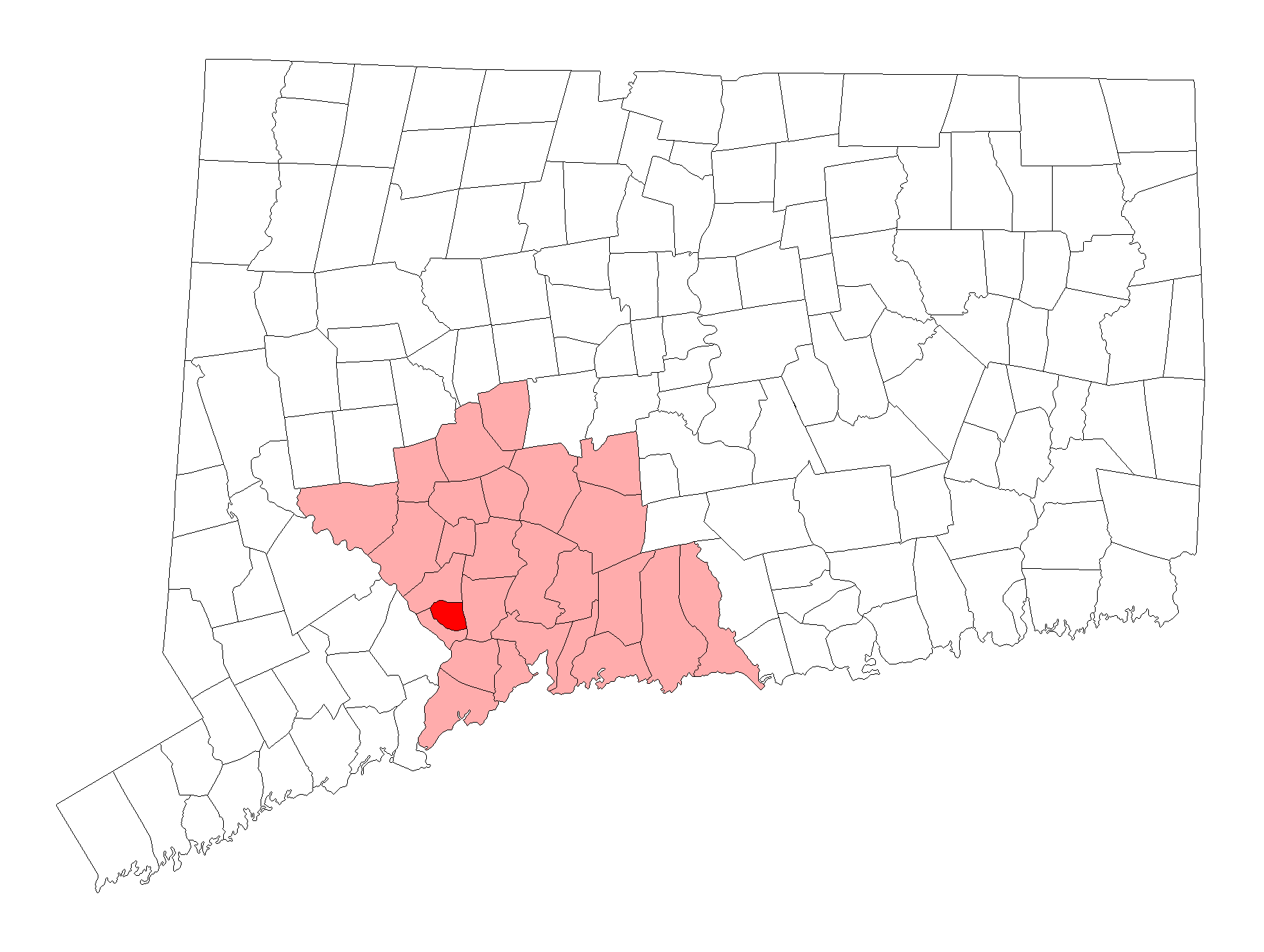 The location of Ansonia, Connecticut within the state of Connecticut.